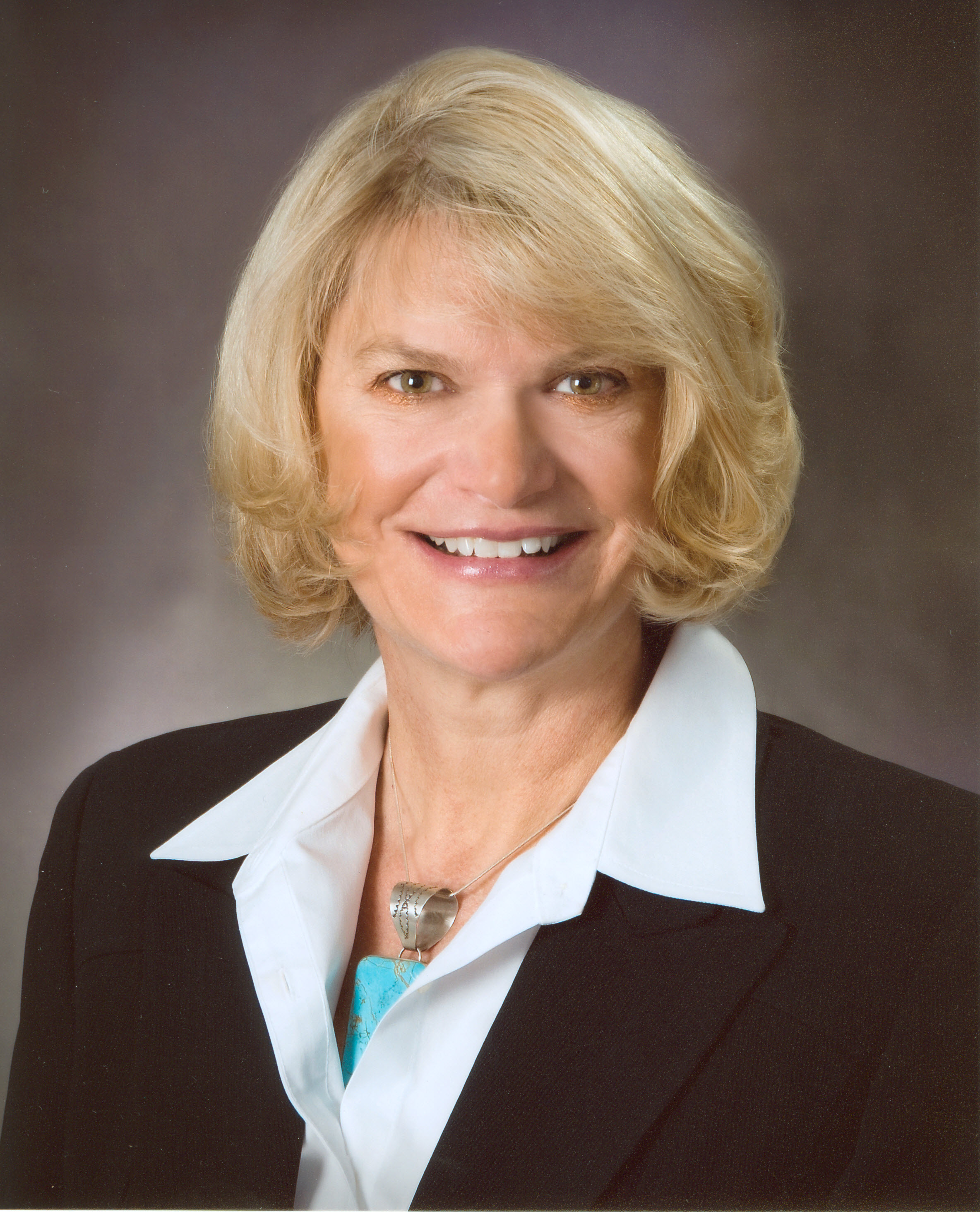 Official photo of Representative Cynthia Lummis (R-WY).